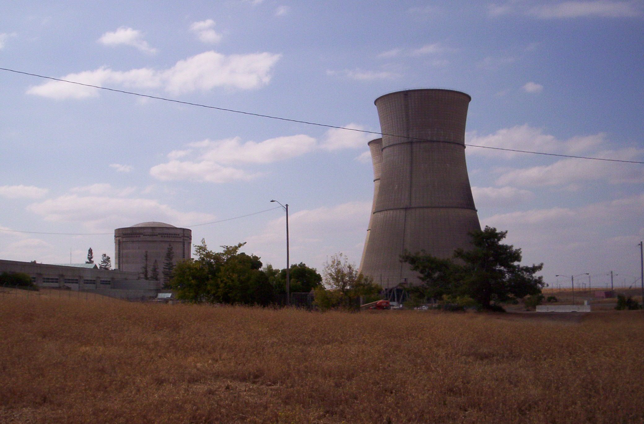 Rancho Seco Nuclear Generating Station